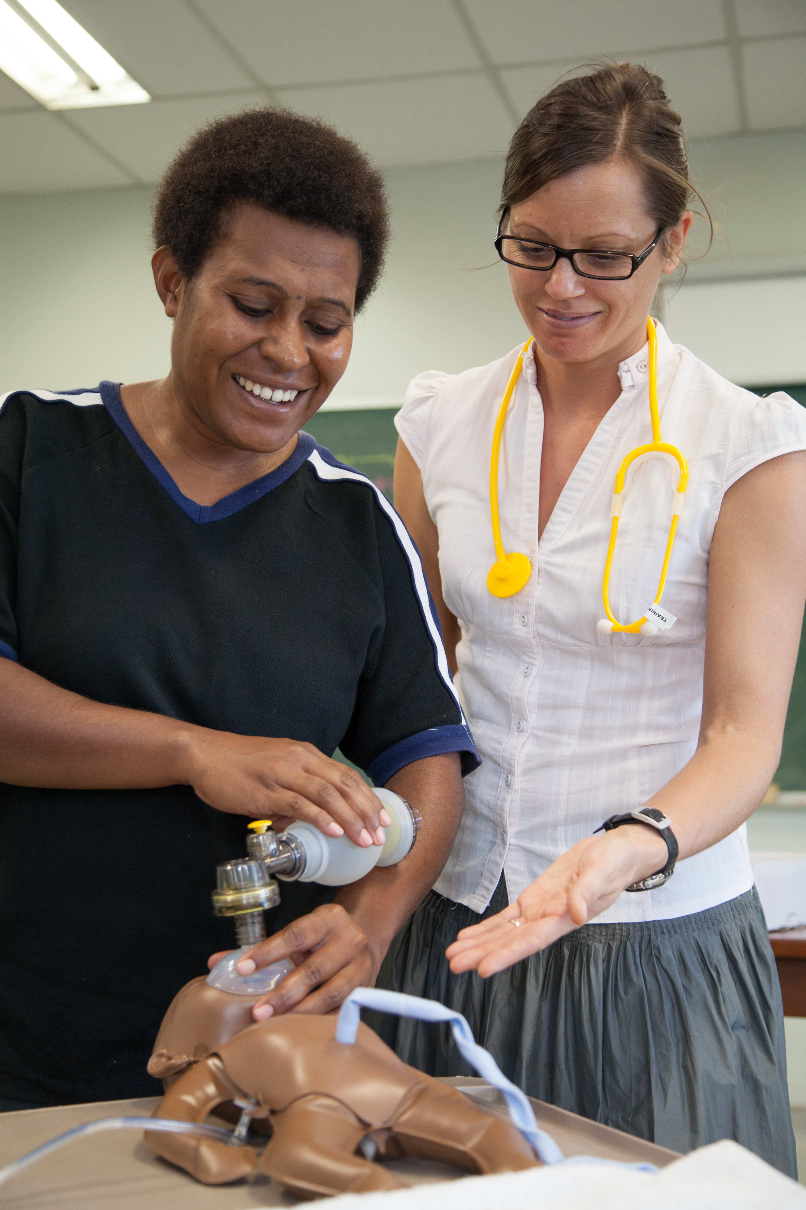 Australian Clinical Midwifery Facilitator Florence West teaches training midwives at the Pacific Adventist University PAU, outskirts of Port Moresby, PNG. Photo taken by Ness Kerton for AusAID. (13/2529)